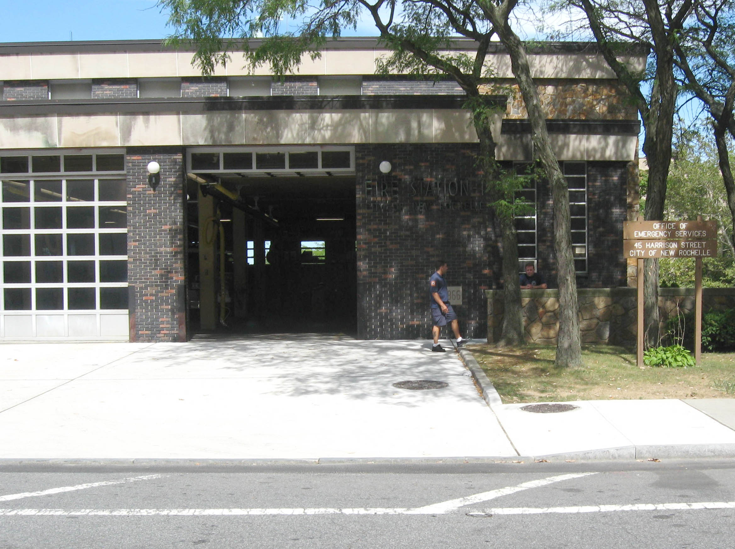 Looking northeast at a New Rochelle, New York fire station. ZIP 10801.